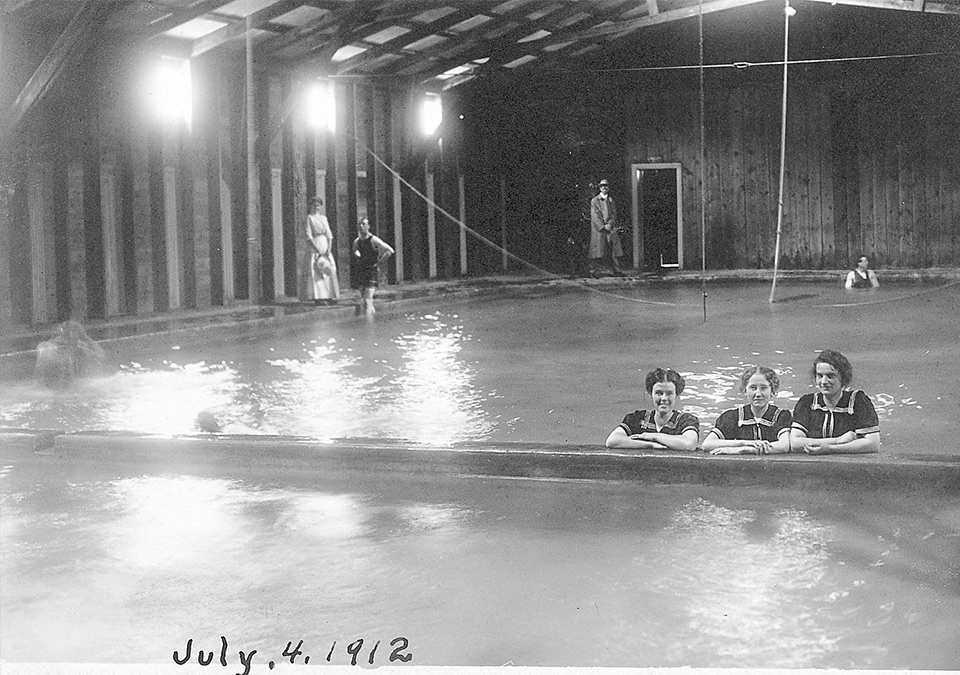 Women in thermal pool at Chico Hot Springs in 1912